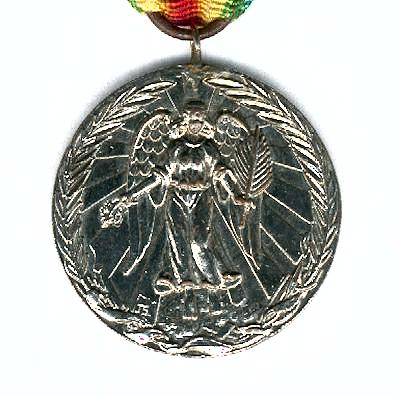 Interallied Victory Medal of WWI (Brazil)